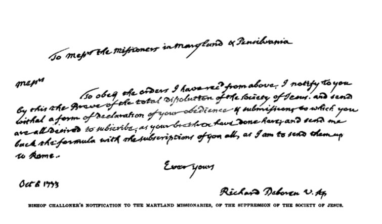 The notice of the dissolution of the Society of Jesus sent by Bishop Challoner to the Maryland Jesuits